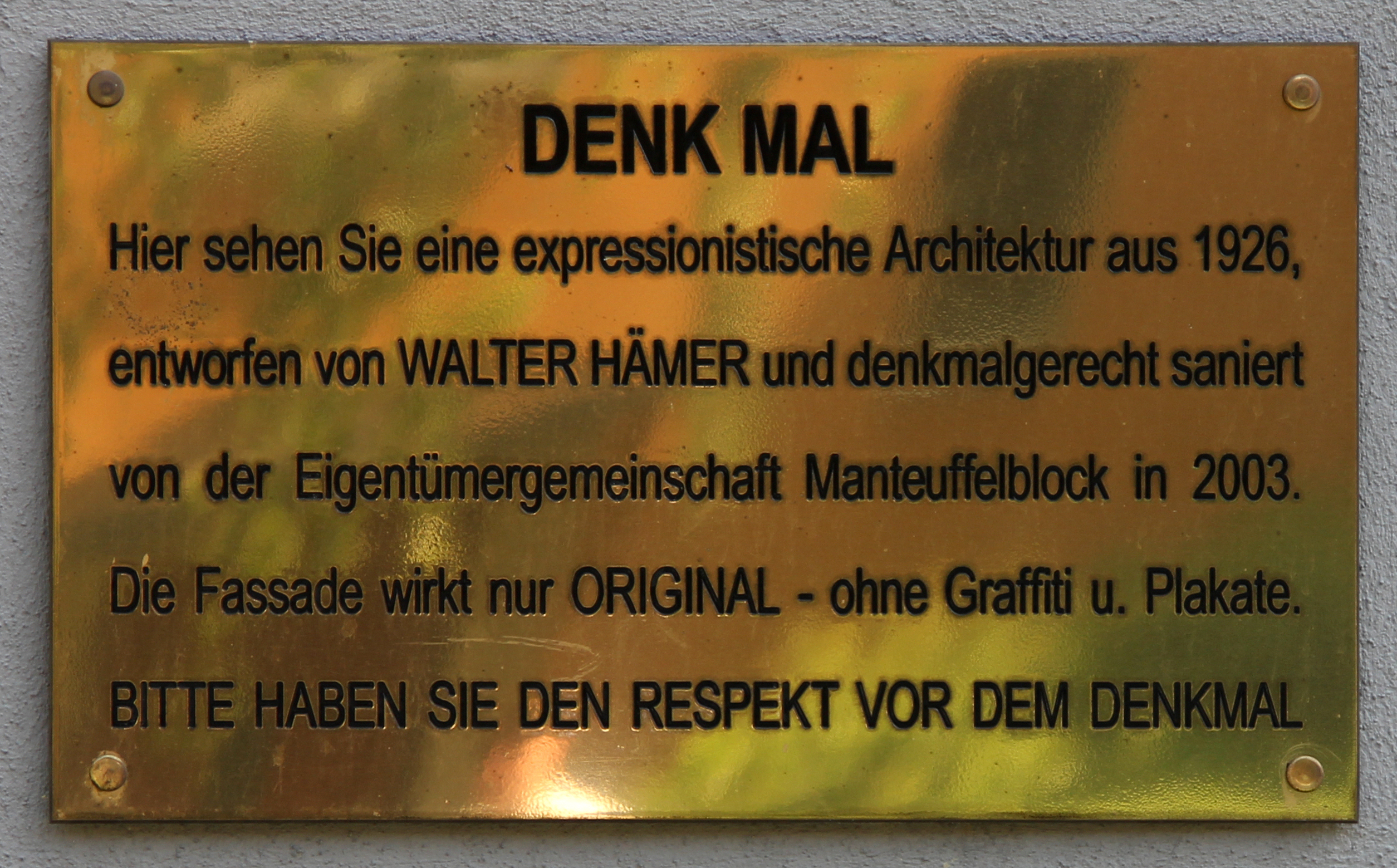 Memorial plaque, Walter Hämer, Gäßnerweg 55, Berlin-Tempelhof, Germany